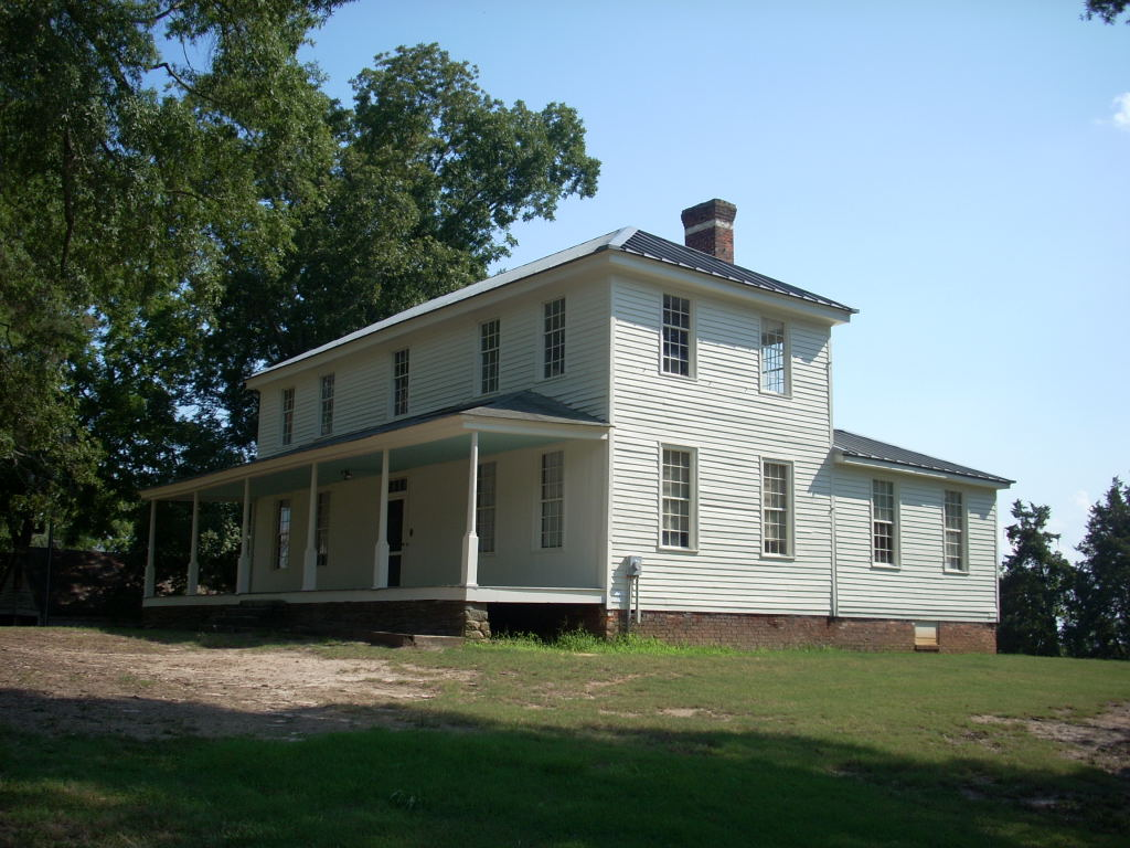 Hopewell, Clemson (Pickens County, South Carolina) Andrew Picken's (congressman) house on the Seneca (Keowee River)